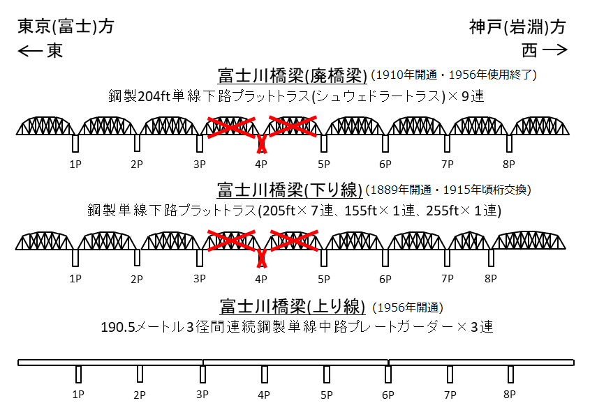 Description figure of 1982 flood damage on Fujikawa railway bridge on Tokaido mainline.